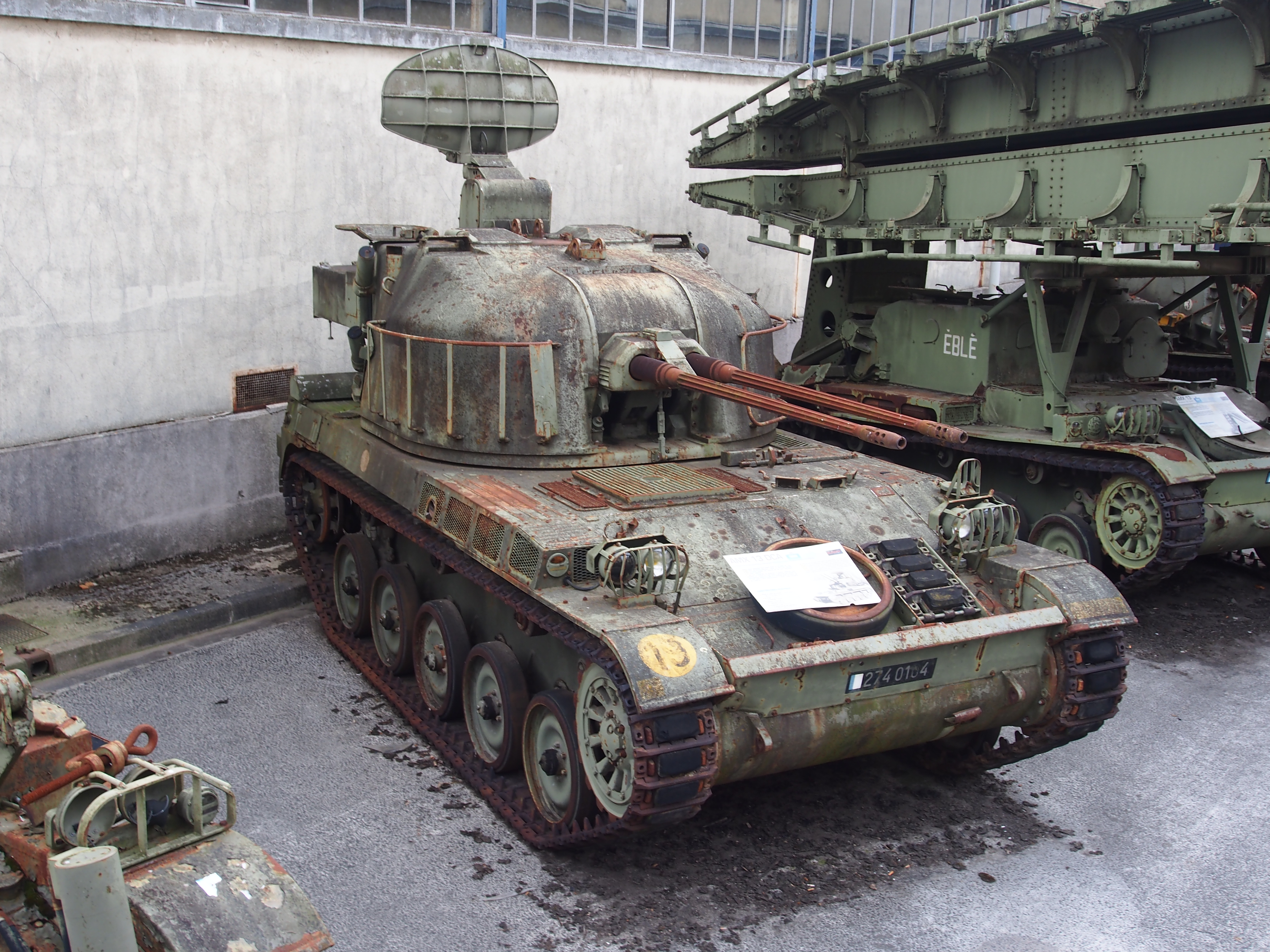 Photographed in the Musée des Blindés, France.